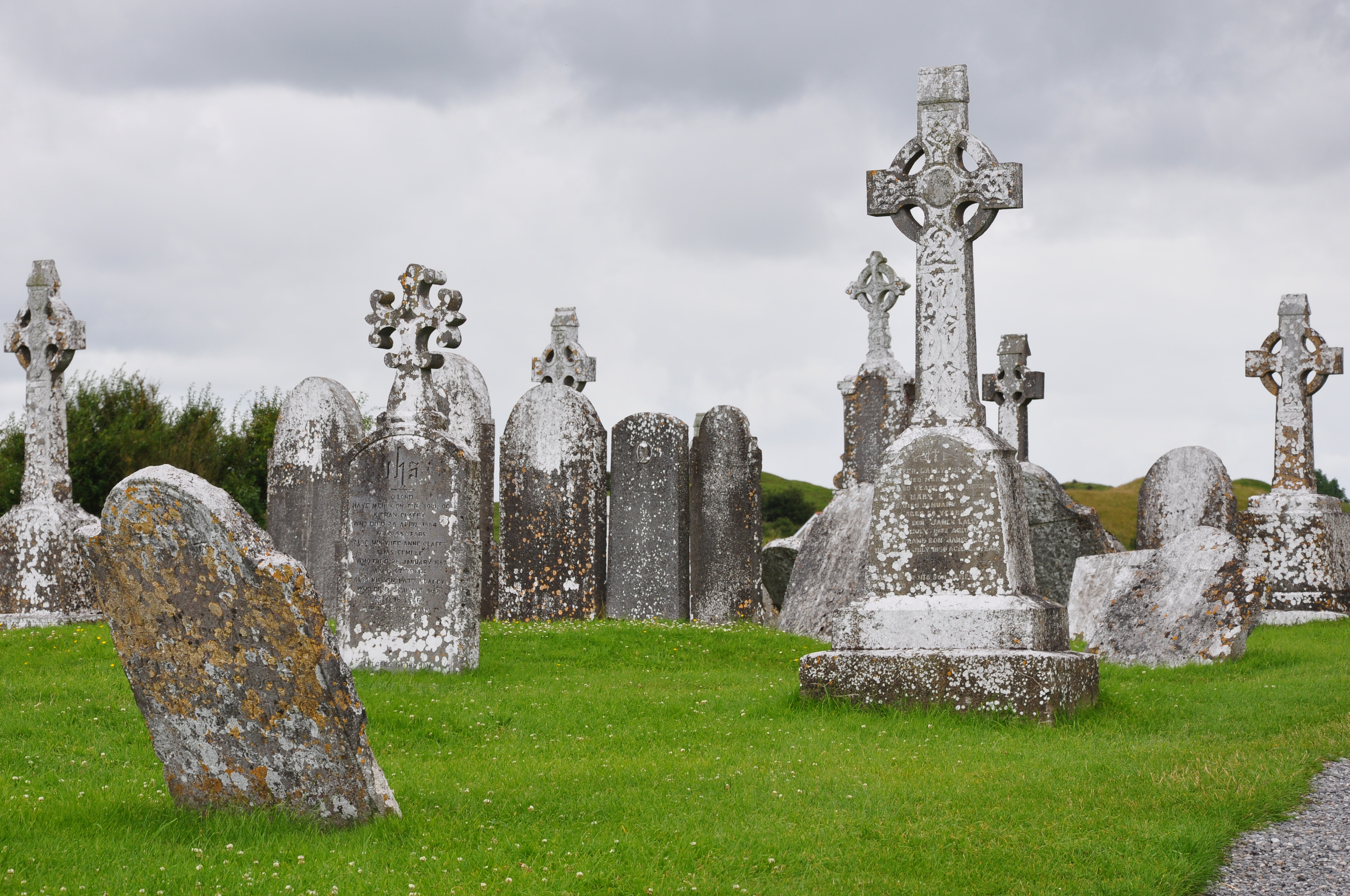 Cemetery at Clonmacnoise, County Offaly, Ireland